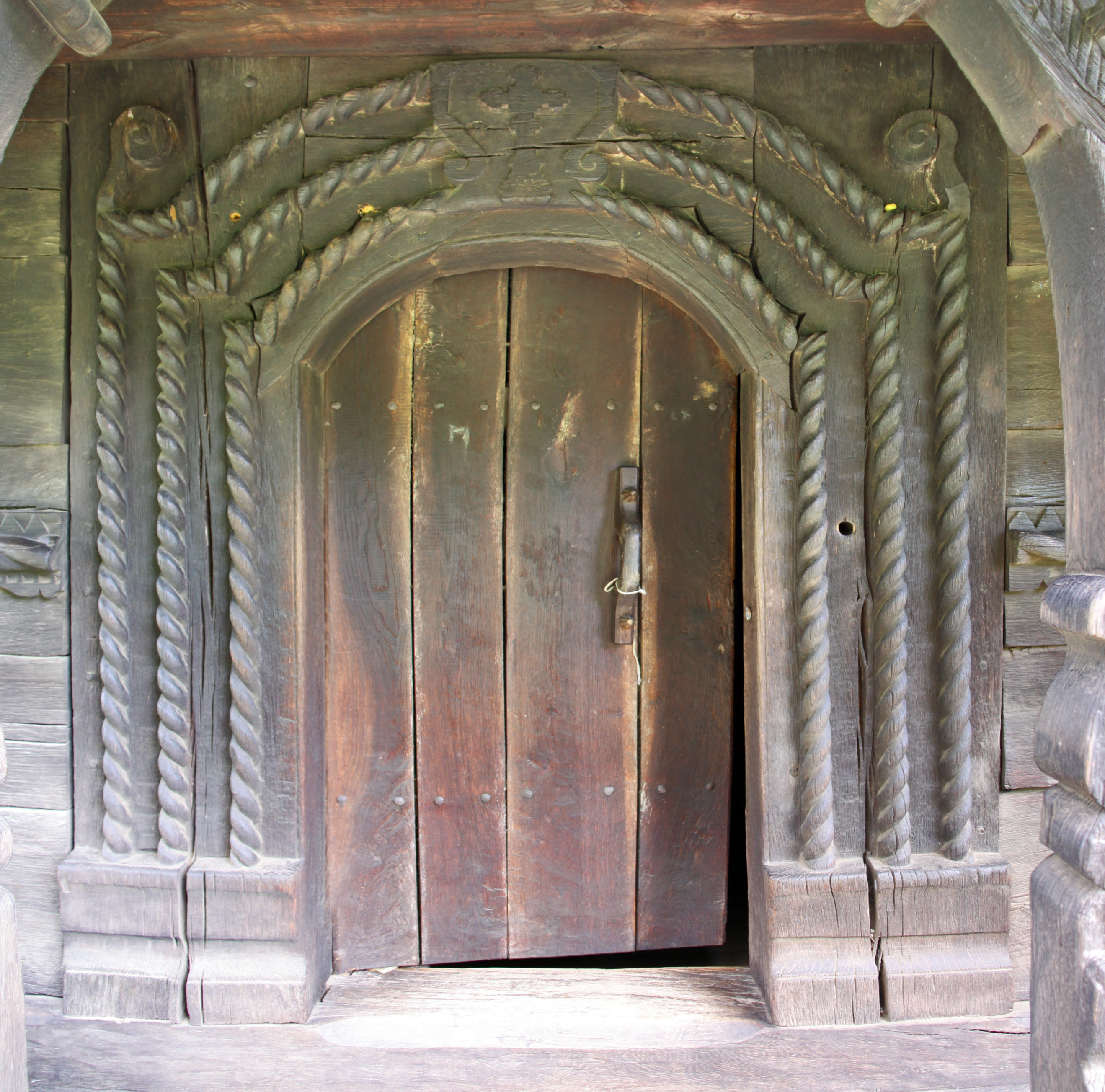 Wooden church in Cizer, Cluj